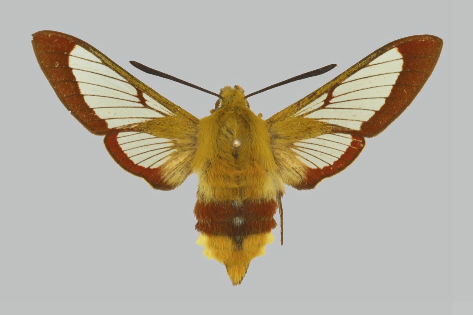 Hemaris fuciformis, female, upperside. United Kingdom, Cambridgeshire, Castor